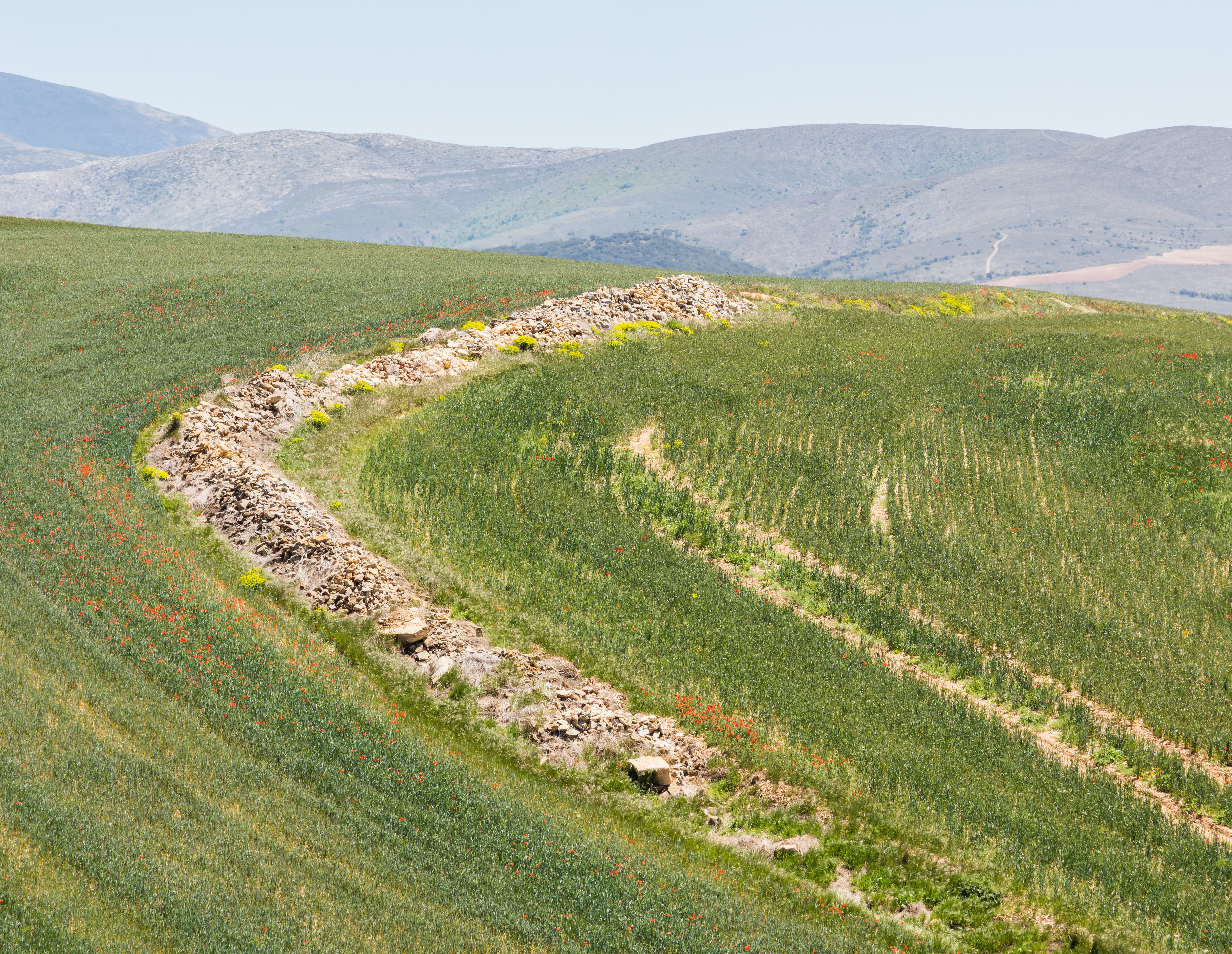 Remains of the Augustóbriga wall, Muro de Ágreda, Soria, Spain